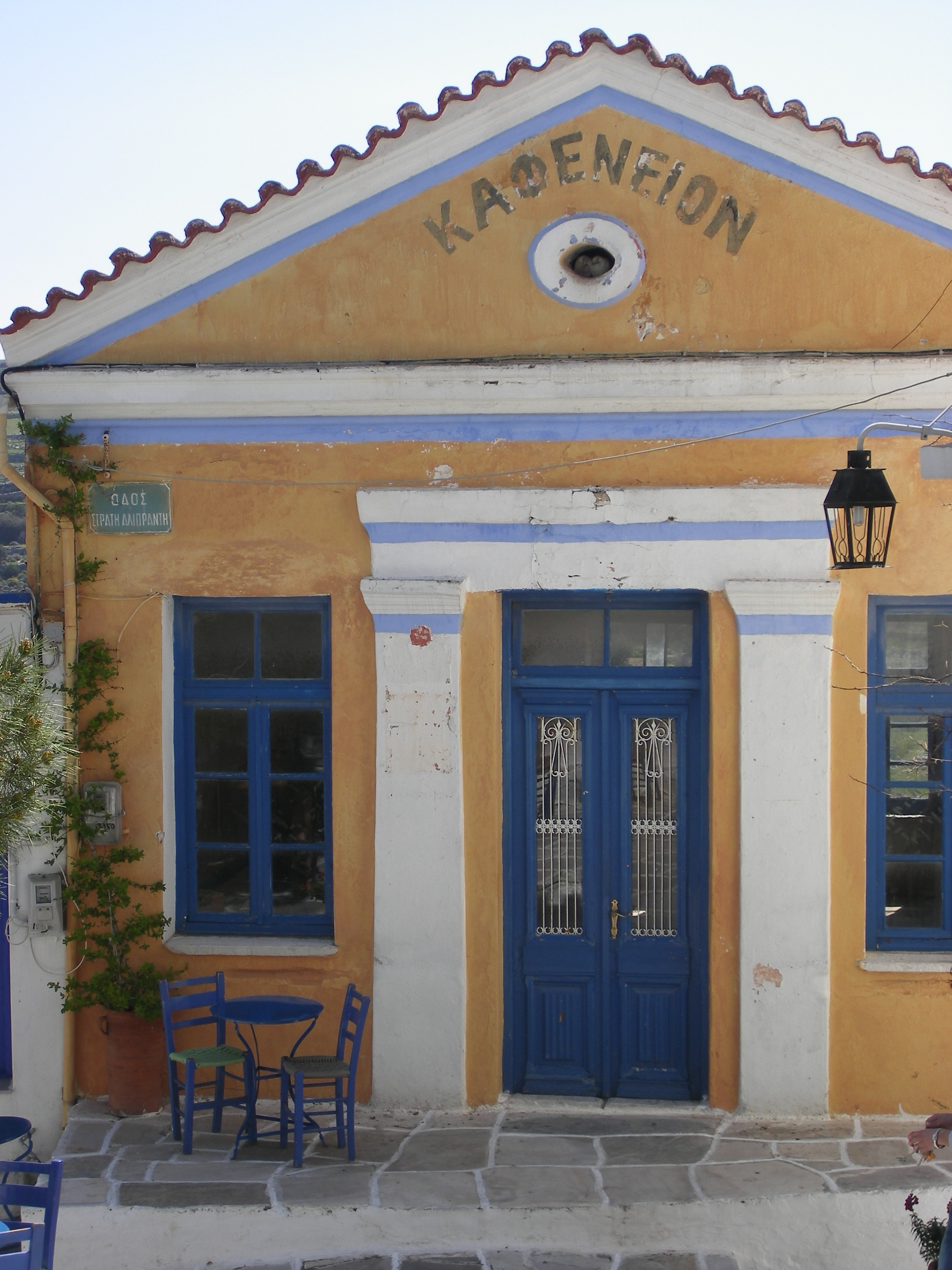 Kafeneion in Lefkes town, on Paros island, in Greece